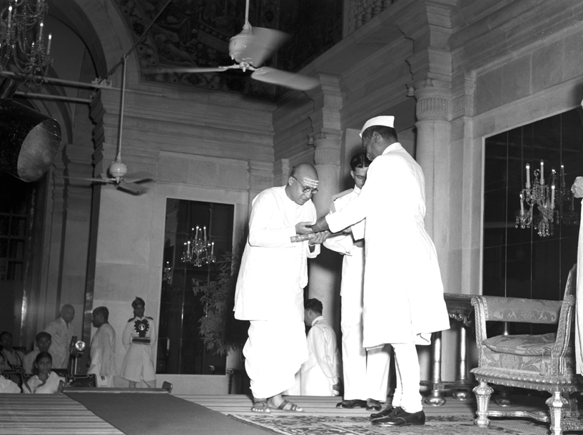 Caption:- Studio/Mar.53,A22d(v)Shri Semmangudi R. Srinivasa Iyer – vocalist, Karnatik Music – receiving the Annual Award of a purse, shawl and a sanad, from the President, Dr. Rajendra Prasad, at a ceremony held at Rashtrapati Bhavan, New Delhi, on March 14, 1953. Photo Number:-32308